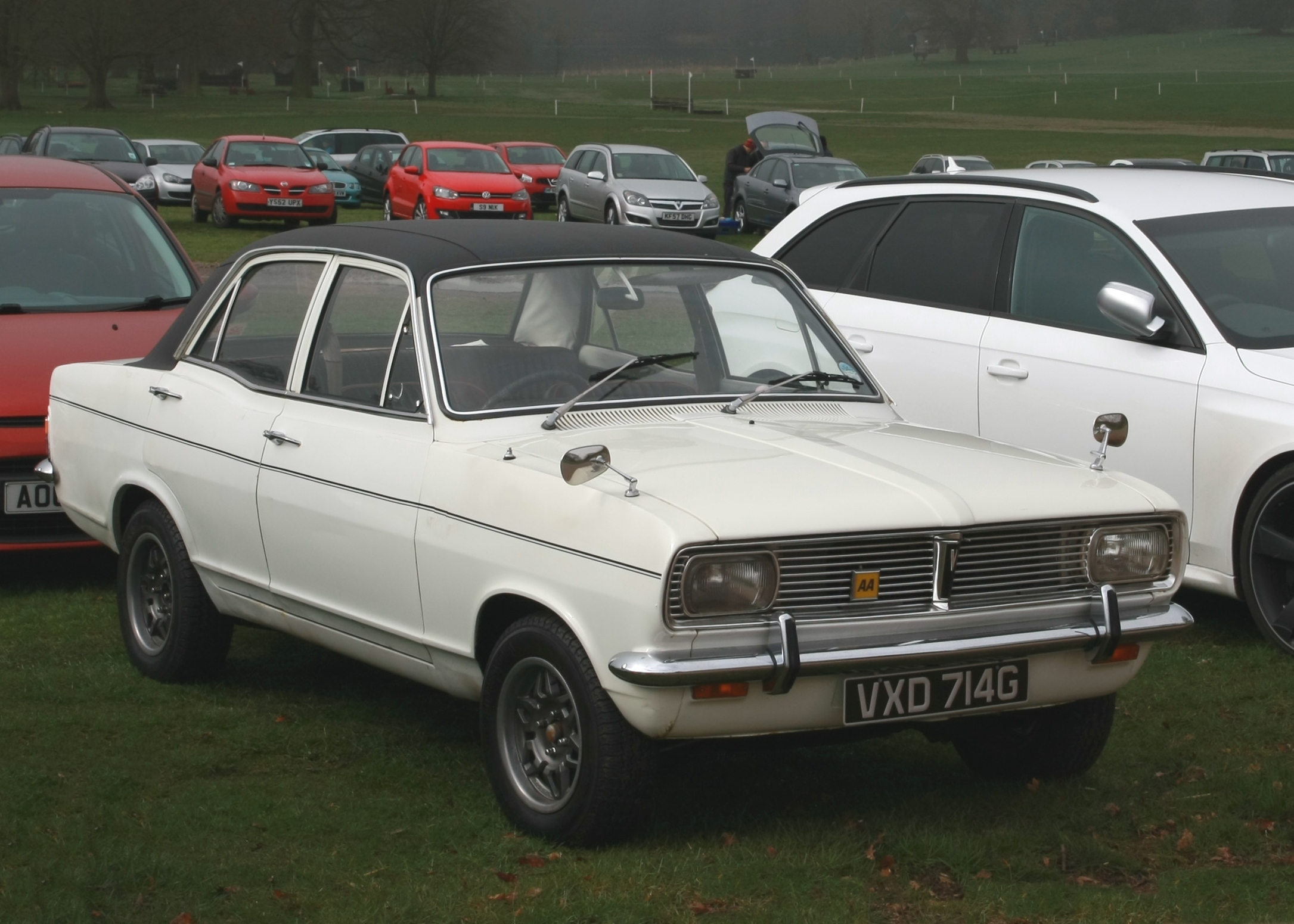 Vauxhall Viva HB (1969) with (relatively unusually) four doors